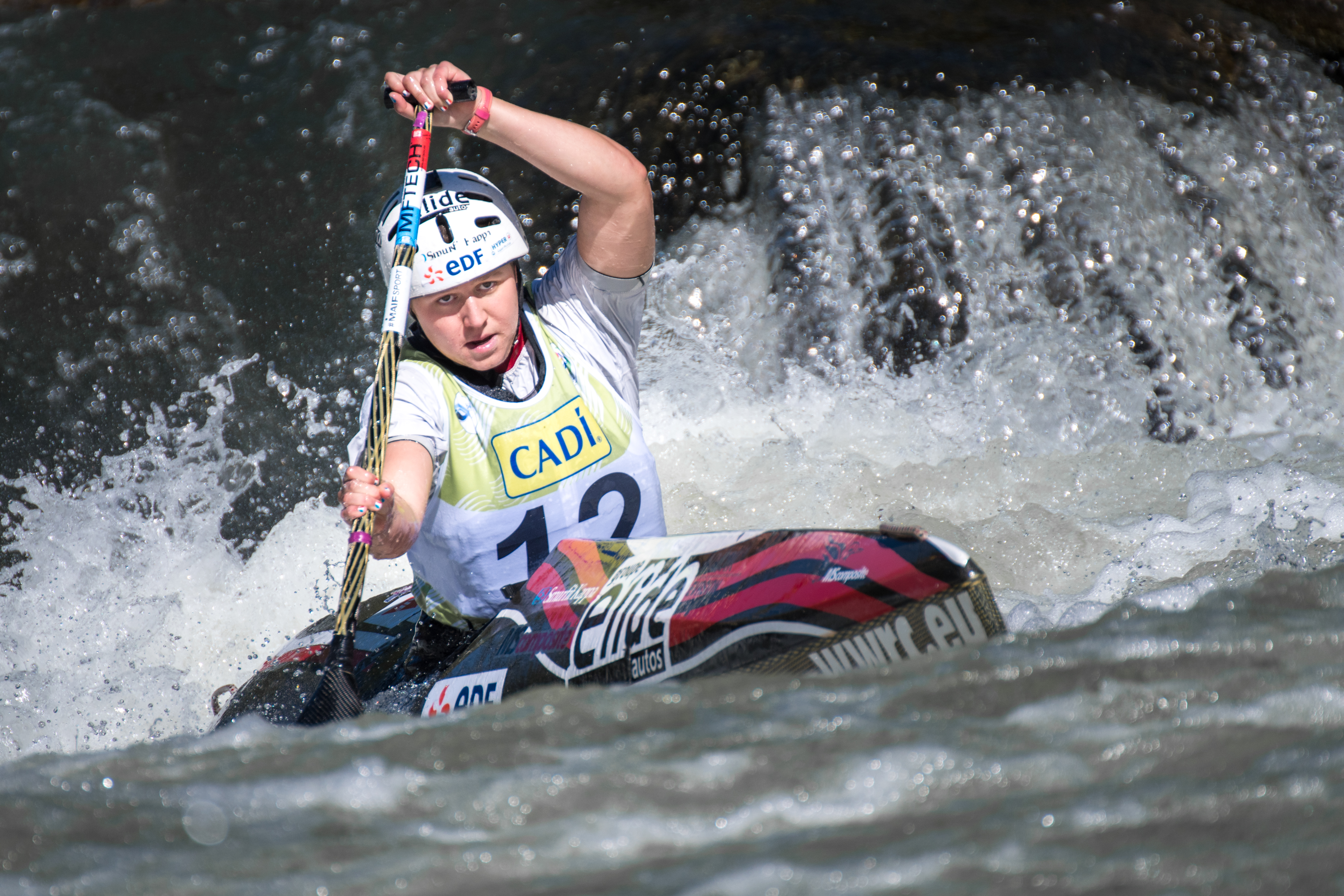 Elsa Gaubert during the 2019 Canoe Wildwater World Championships in La Seu d'Urgell, Spain.